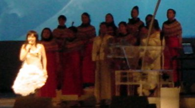 Björk performing at the Radio City Music Hall in New York City, New York, United StatesBjörk concert radio city music hall